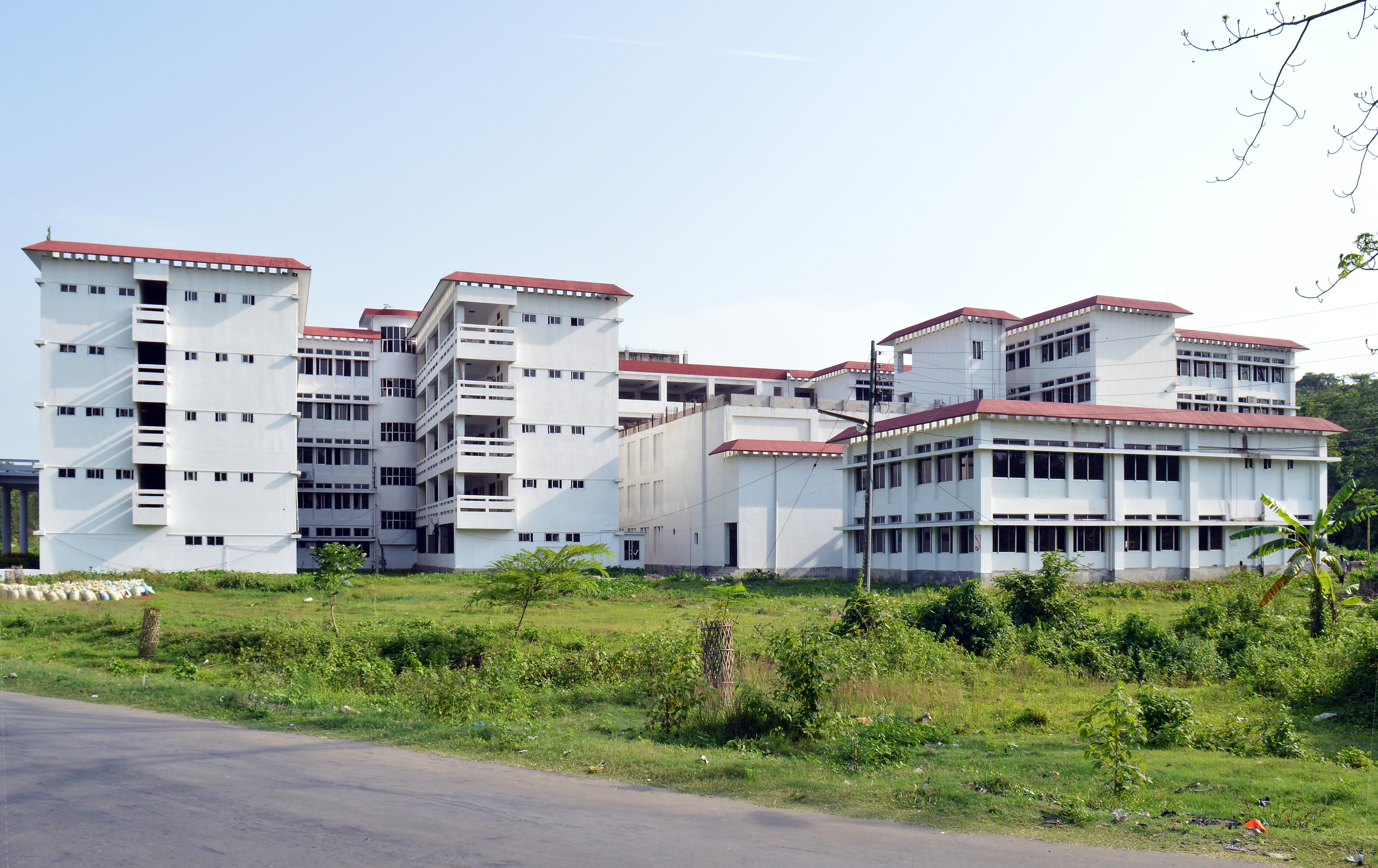 Faculty of Biological Science (East-West view), University of Chittagong